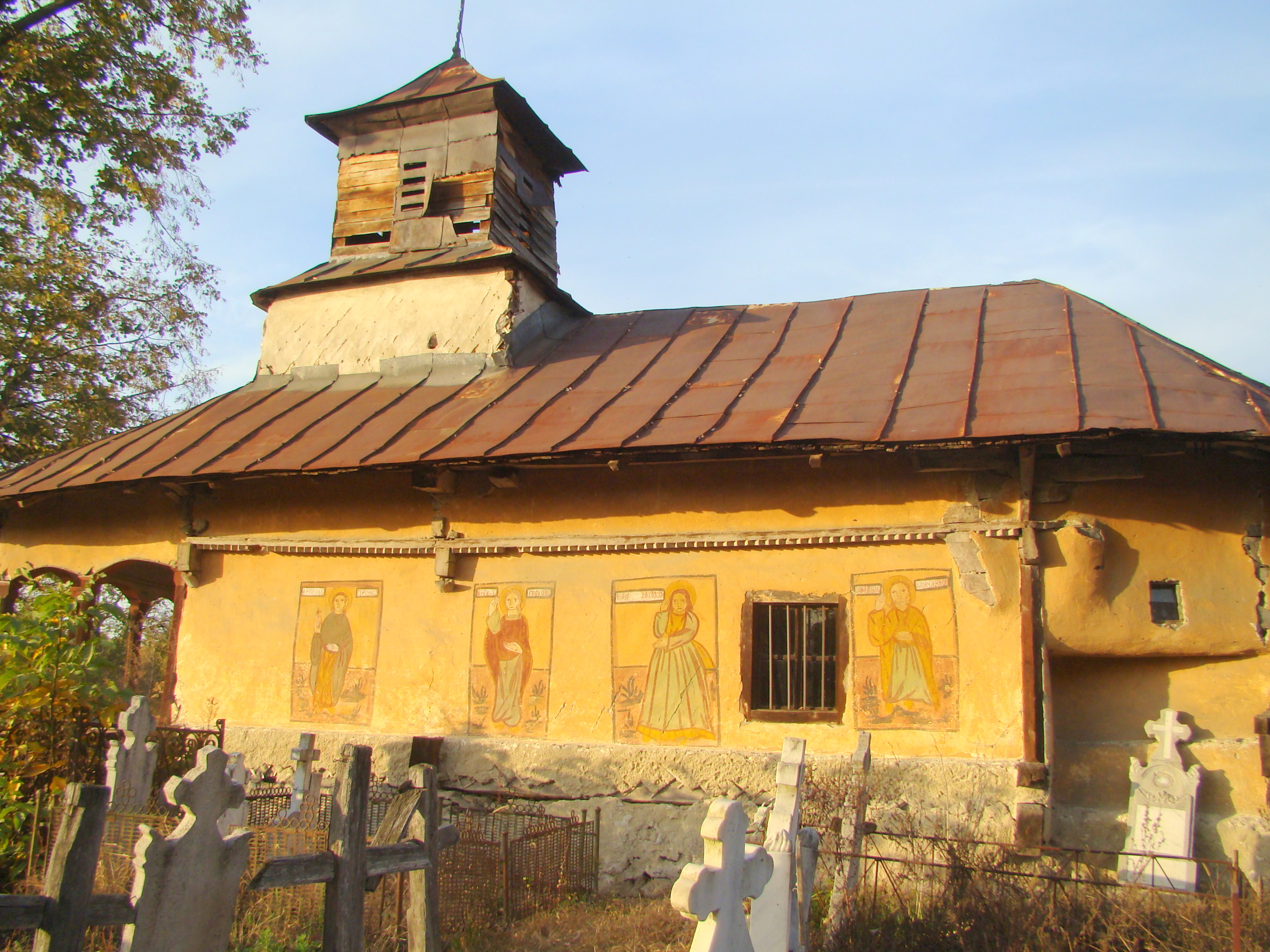 Wooden church in Plopșoru, Gorj county, Romania